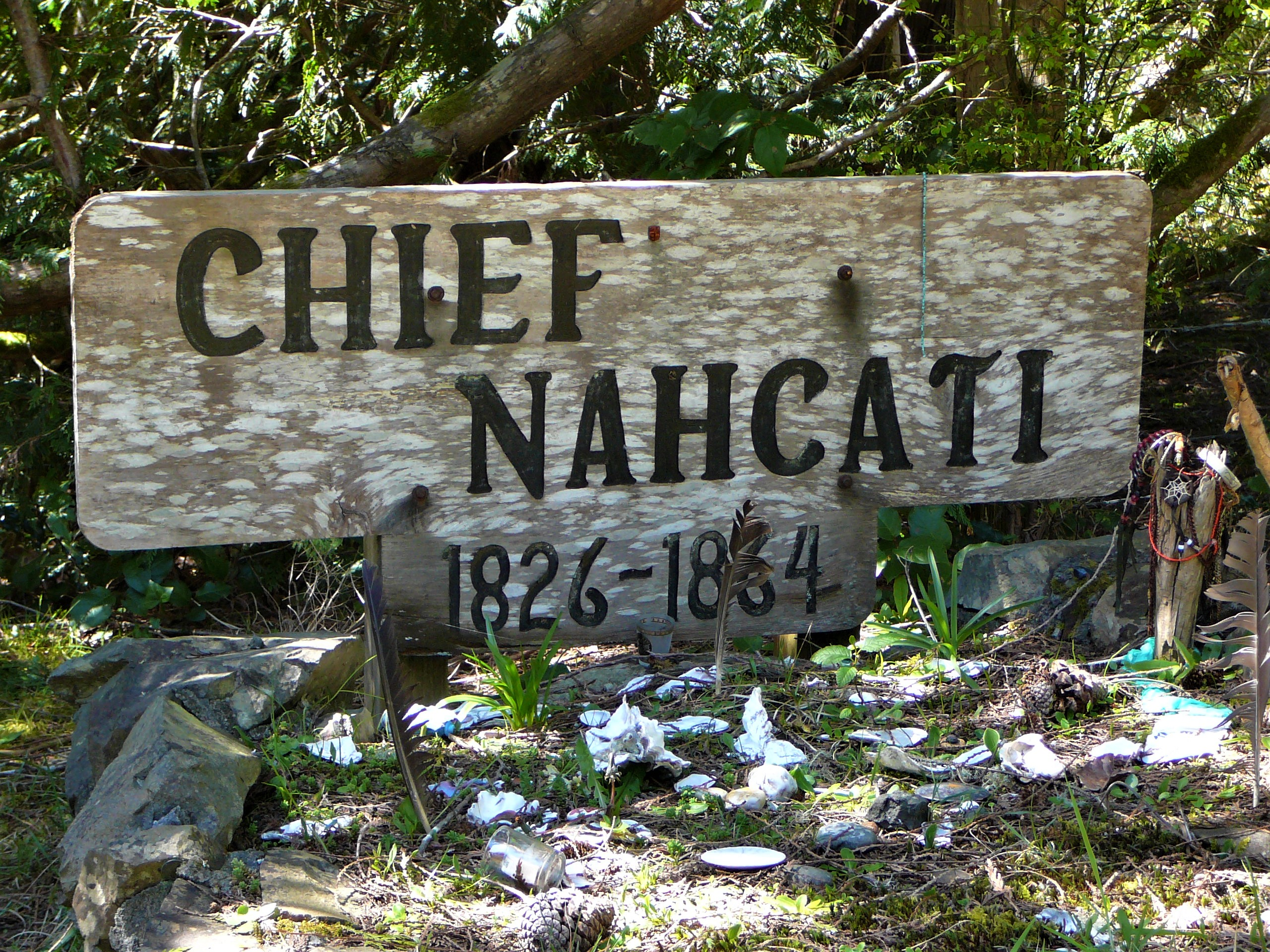 The grave of the last native american chief of the Long Beach Peninsula, just to the right inside the Oysterville Cemetery. It is uncertain if he is actually buried here.